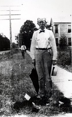 picture of former state Senator William Benton Boggs of Louisiana